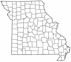 Modified from Image:MOMap-doton-Springfield.png